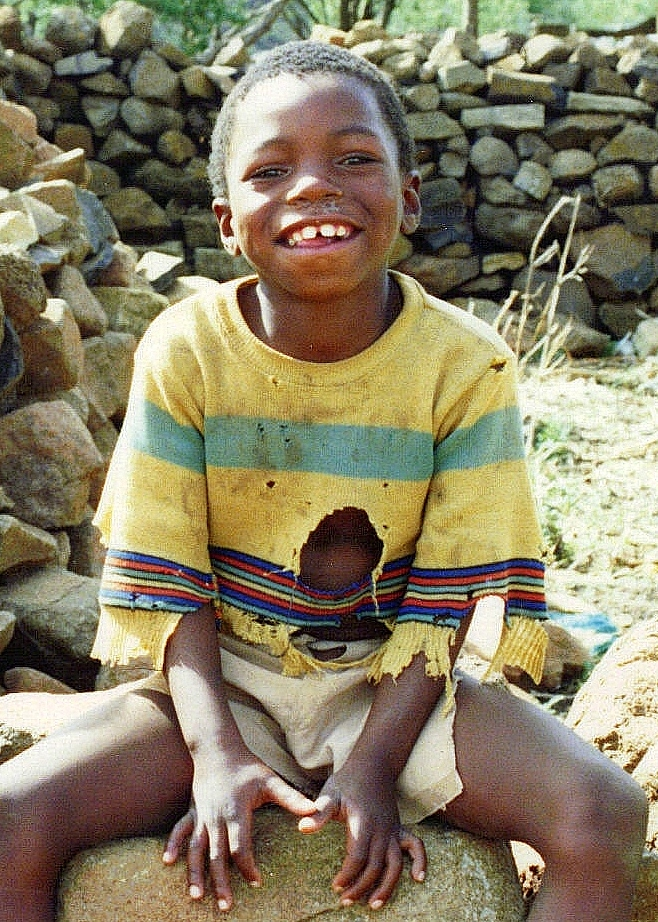 Original Flickr description: I met this wonderfully ebullient little boy in 1992, when I had just arrived in Lesotho and didn't yet speak enough of the language to talk with him. He loved posing for me and happily "drummed" on the stone he sat on.